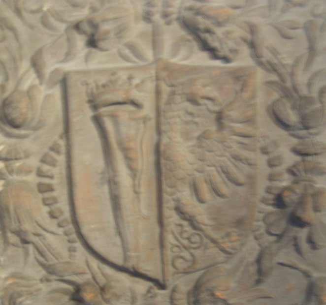 Terracotta Coat of Arms of the Bergfahrer made by Statius von Düren (1520-1570)